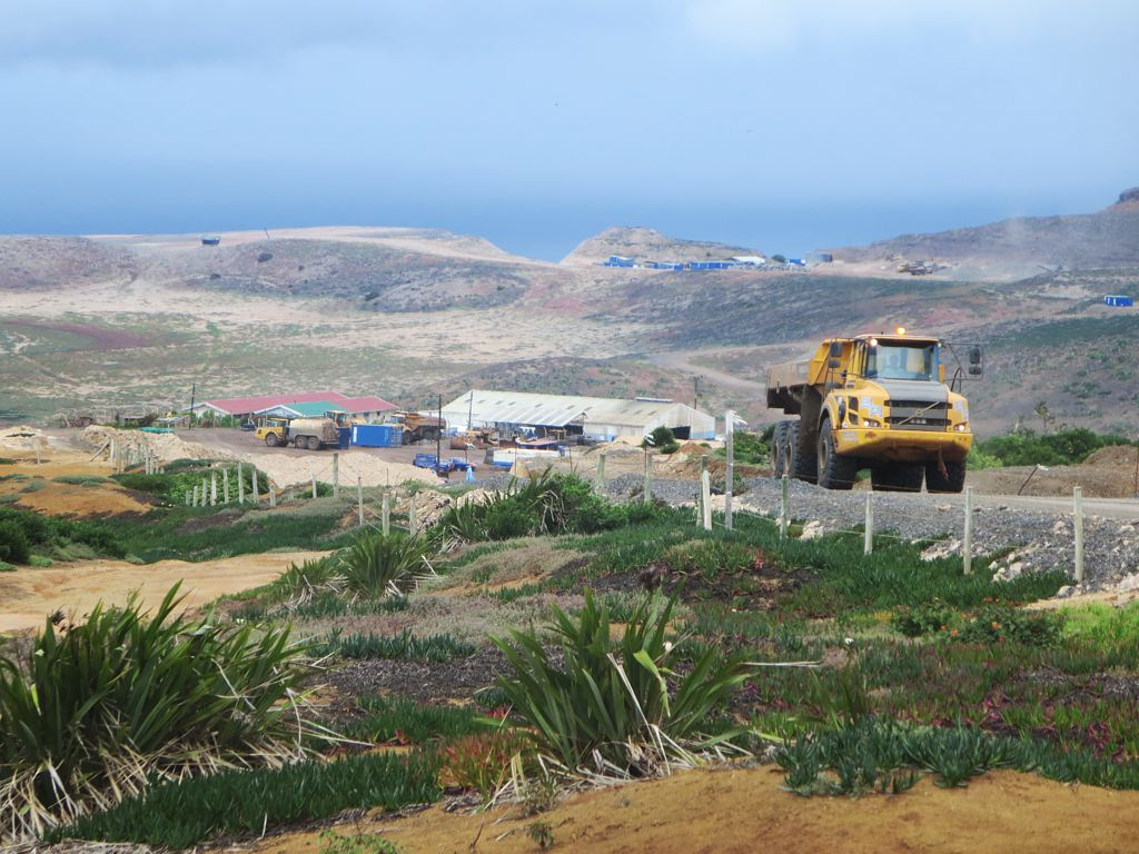 Between 2013 and 2015 a new airport was constructed on Prosperous Bay Plain in eastern St Helena Island.